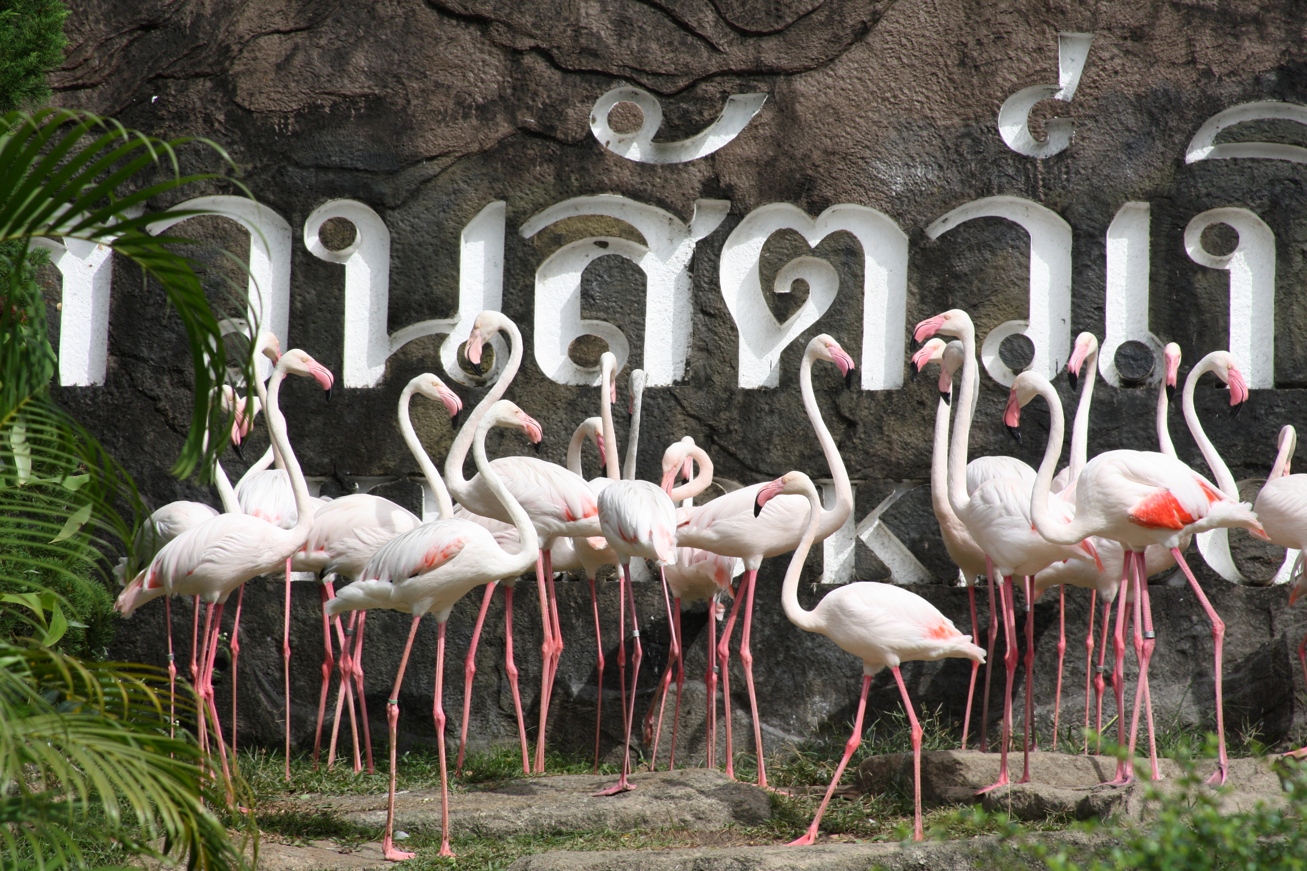 Bang Phra, Si Racha District, Chon Buri, Thailand